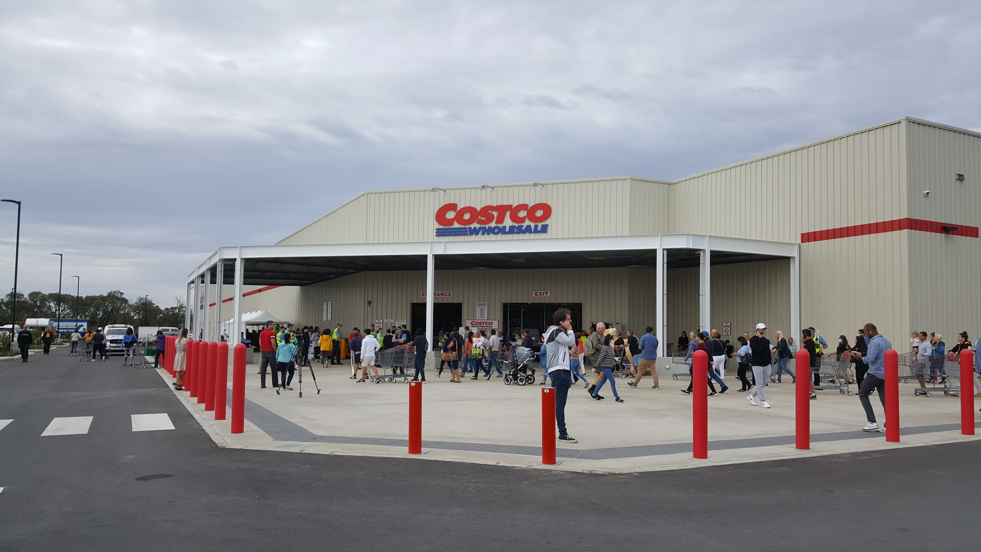 This is what the Costco in Perth looks like during the first morning.